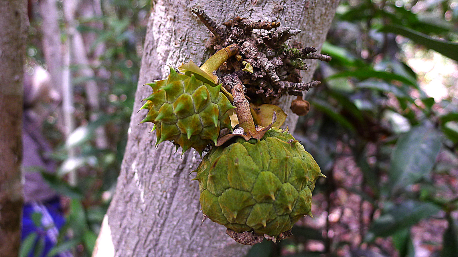 Duguetia moricandiana Mart., Annonaceae, Atlantic forest, northeastern Bahia, Brazil Tree 12 m. Popovkin & Mendes 1239 (HUEFS).